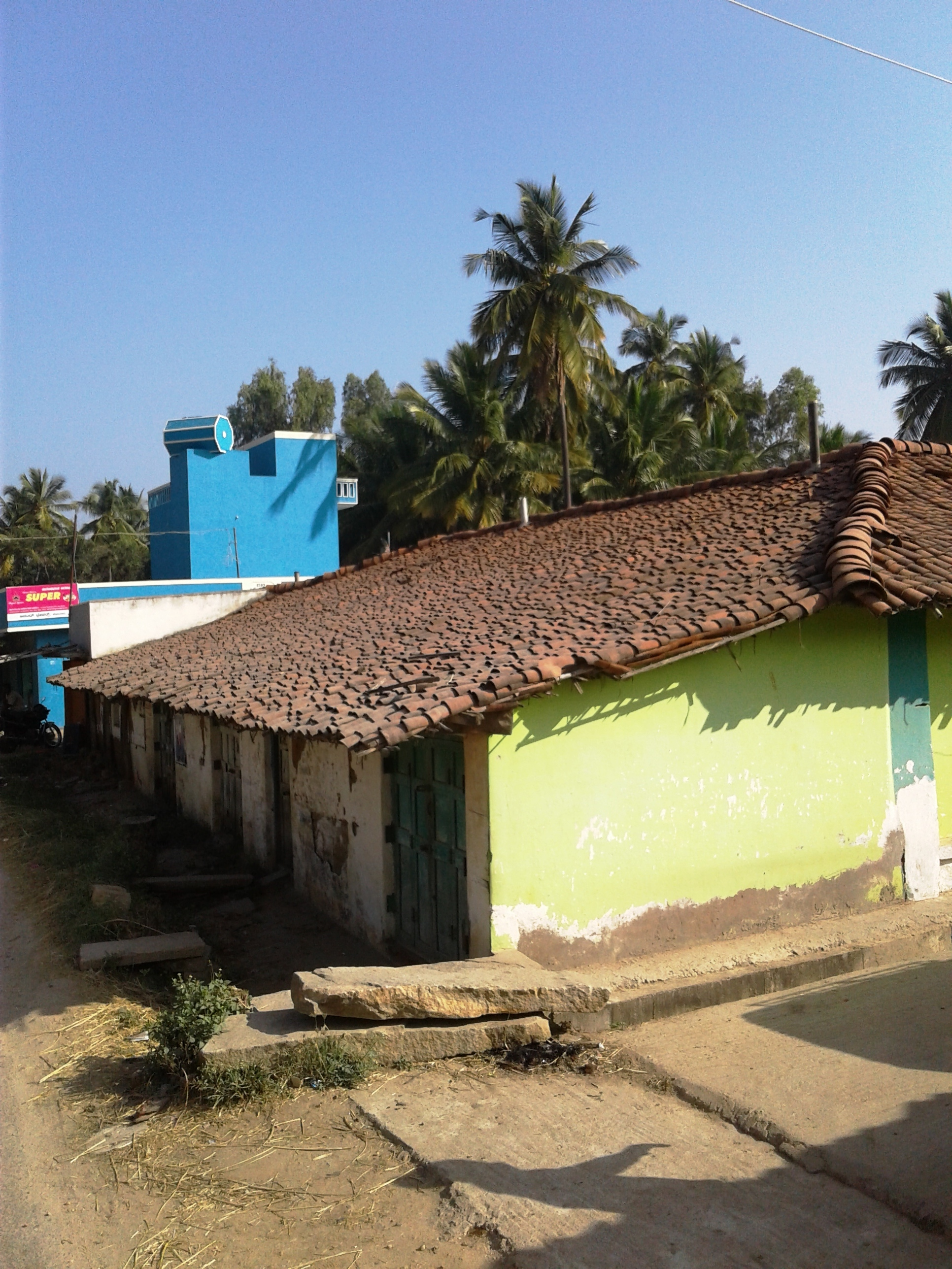 Srirangapatna, Mandya district, Karnataka state, India.